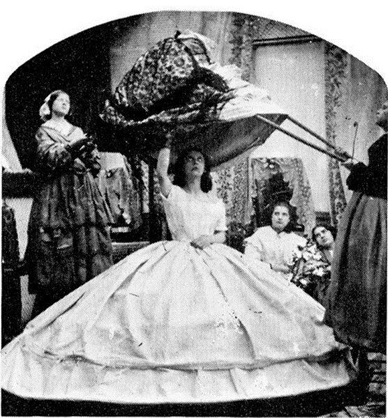 Spoof photograph from a sequence parodying the excessive size of crinolines c.1860